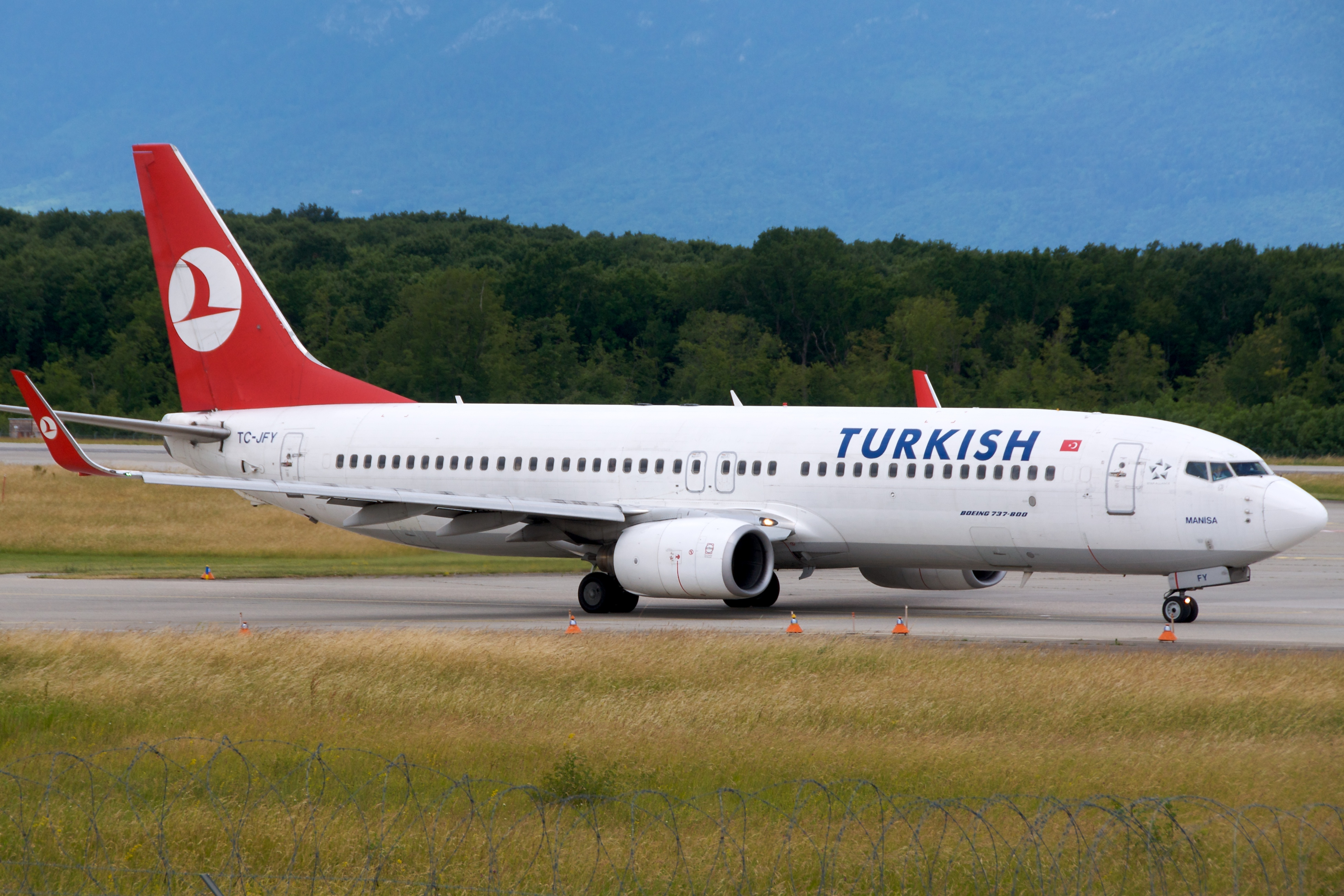 Turkish 737-800 TC-JFY in Geneva International Airport.